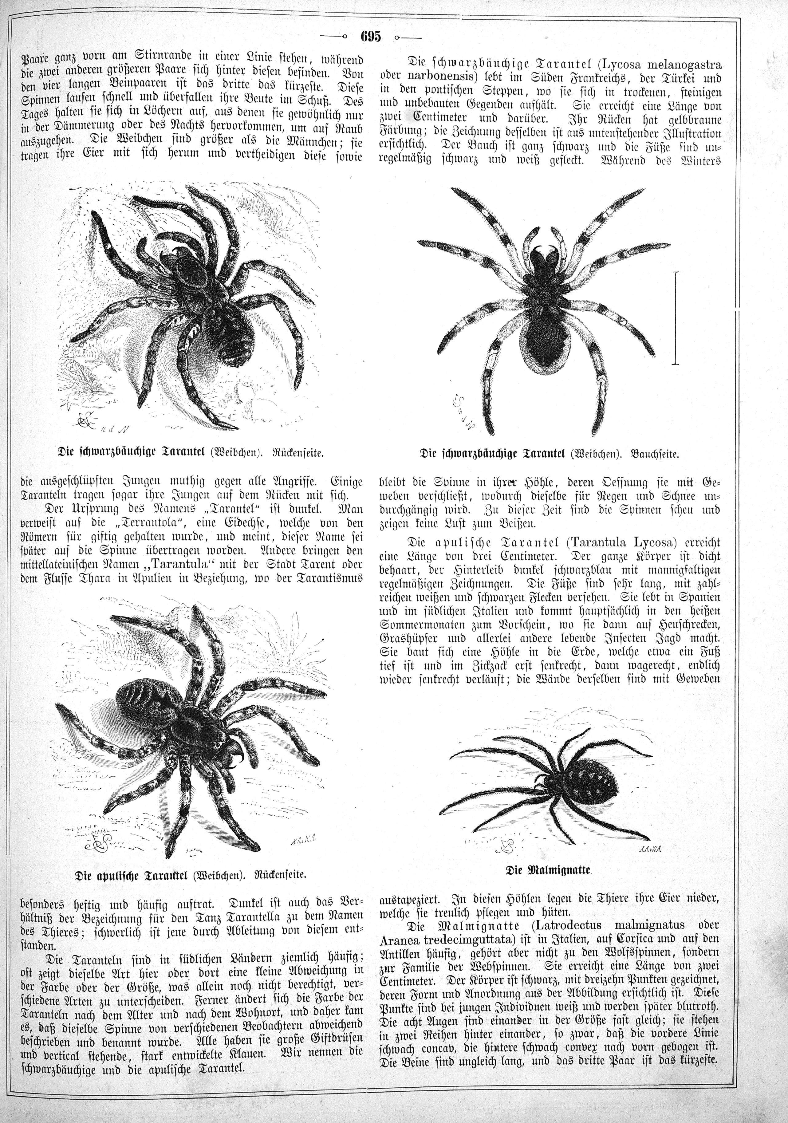 Page 695 from journal Die Gartenlaube for 1879.Extracted image (if any): File:Die Gartenlaube (1879) b 695.jpg - hi res, ~2.5 MB.